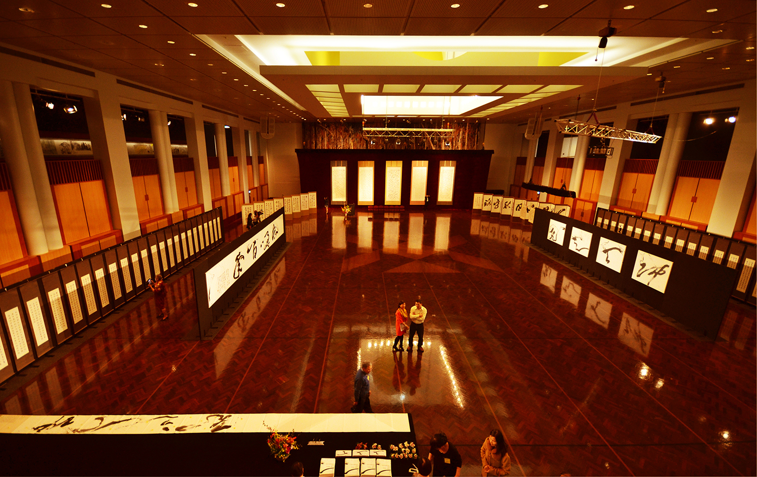 LIANG Xiao Ping exhibition: Soaring to the Sky at Australia Parliament House Exhibition, September 2014